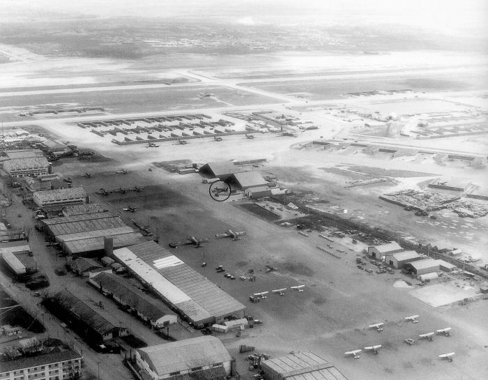 Aerial Photo of Bien Hoa Air Base - South Vietnam.